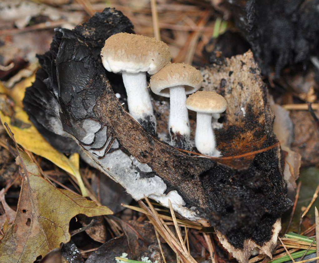 Fruit bodies of the mycoparasitic fungus Asterophora lycoperdoides (Bull.) Ditmar. Photographed in Bourne Farm, Falmouth, Massachusetts, USA. "Recognized by sight: Growing on a dead blackening Russula, brown powder on the cap."